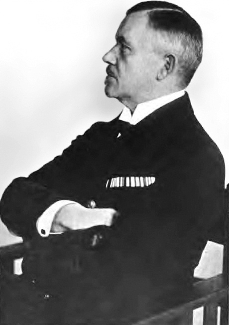 Profile portrait of Reinhard Scheer.